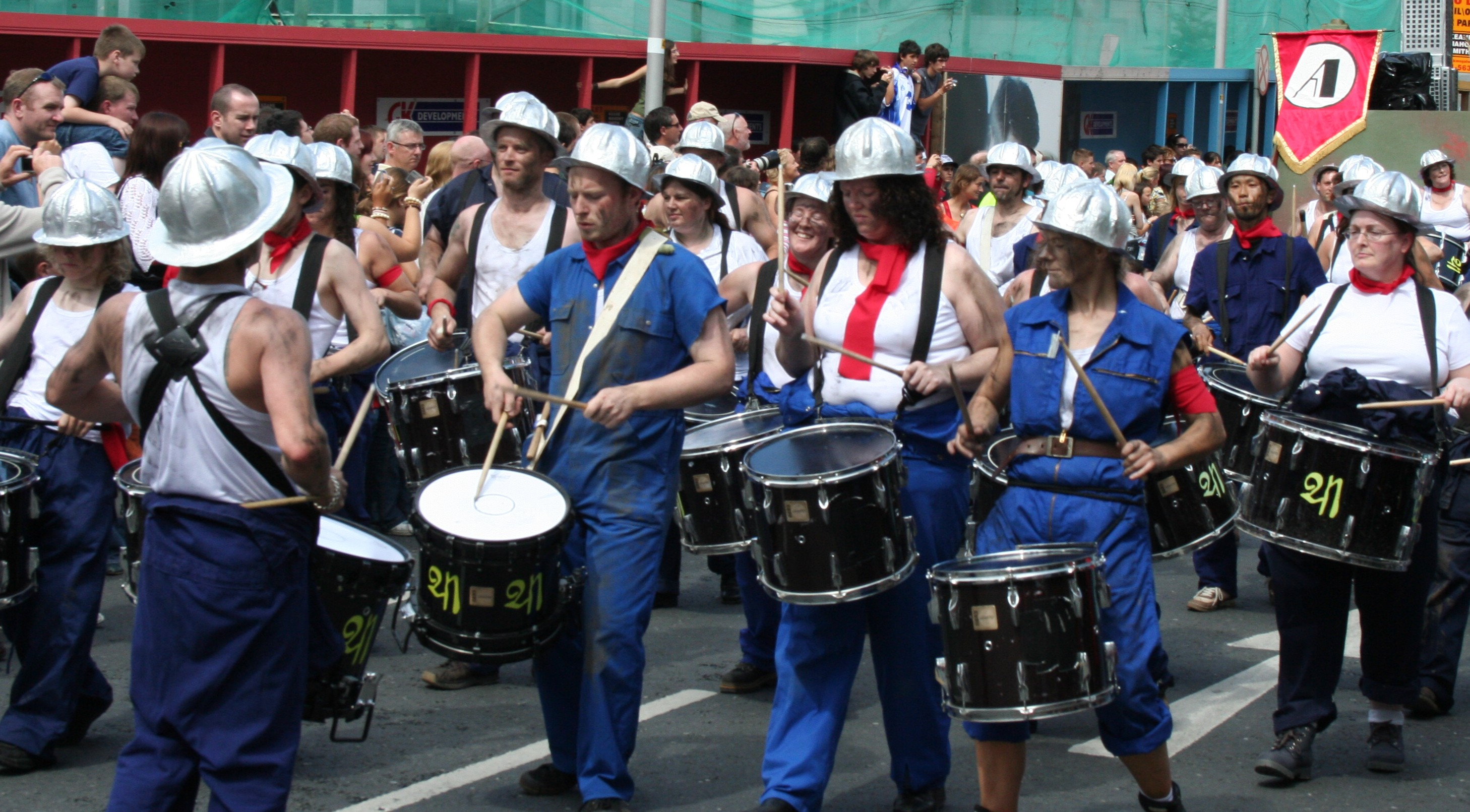 A scene from the Galway Arts Festival 2007 Credit: A Peter Clarke image